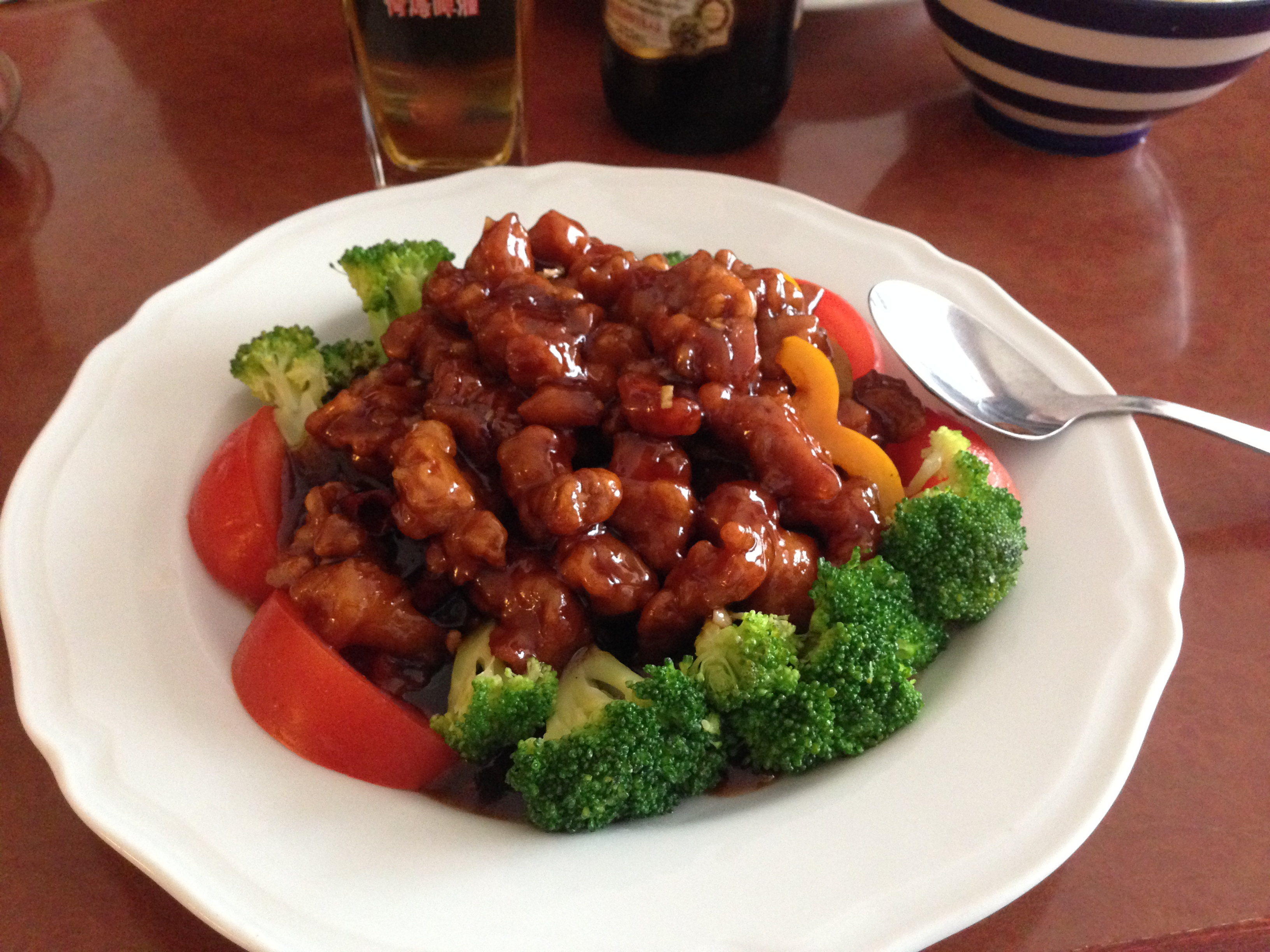 General Tso's Chicken - as served at restaurant Golden China, Uppsala, Sweden